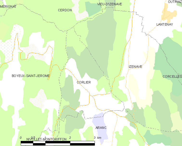 Map of French commune: Corlier Map commune FR insee code 01121.png